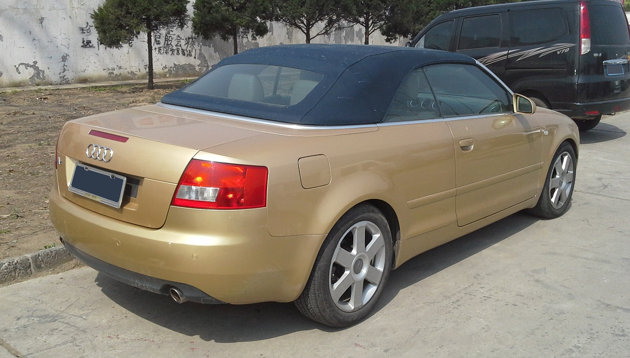 Audi A4 B6 Cabriolet photographed in Beijing, China.